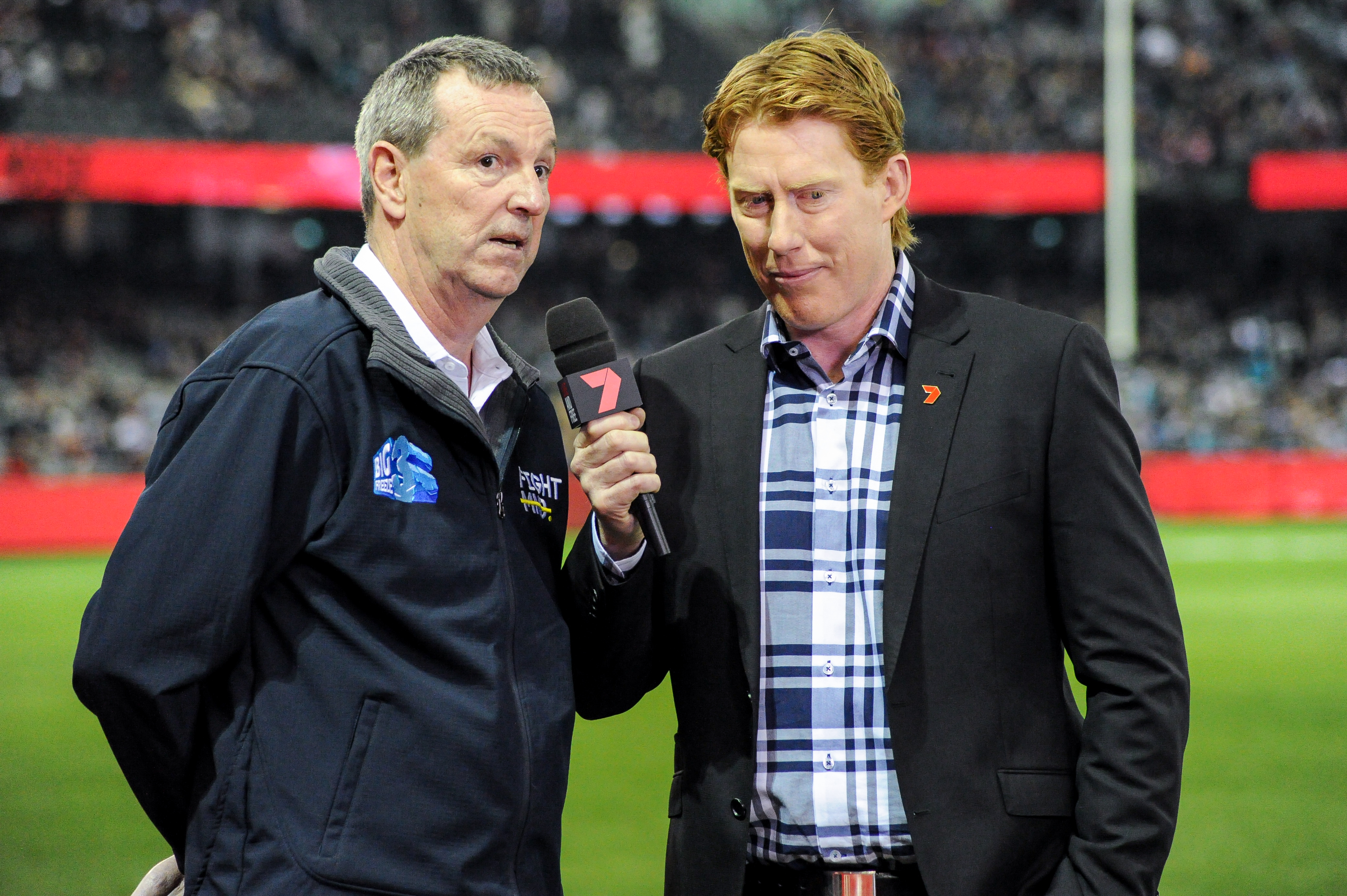 Cameron Ling interviewing Neale Daniher during the AFL round twelve match between Essendon and Port Adelaide on 10 June 2017 at Etihad Stadium in Melbourne, Victoria.